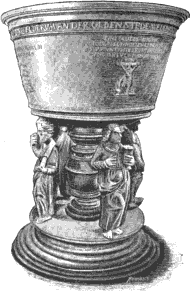 Baptismal font, cast in 1638 by Hermann Benningk in Heiligenstedten church